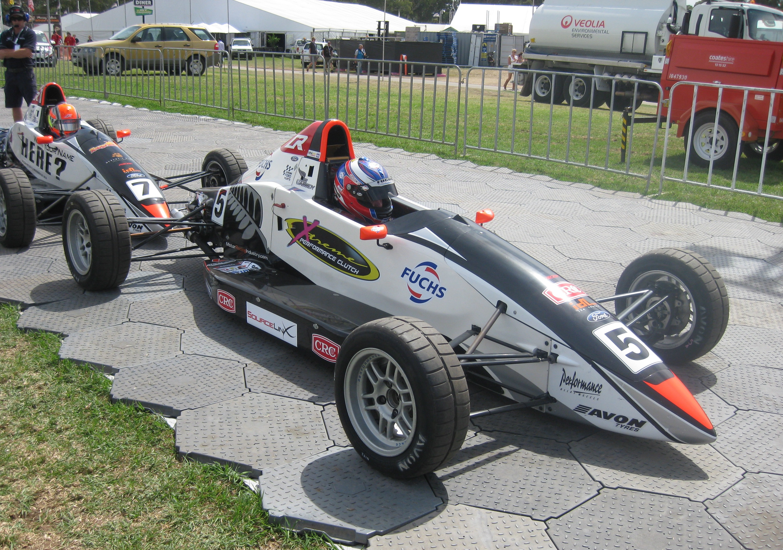 The Mygale SJ11a of Nick Cassidy at the Adelaide Parklands Circuit for the opening round of the 2011 Australian Formula Ford Championship